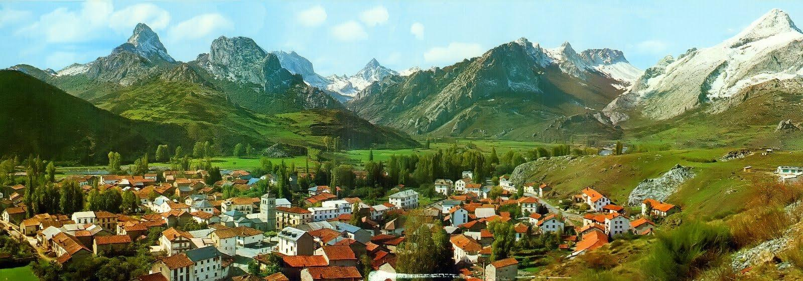 The Riaño country in the Leon province (Spain). 1984 year.